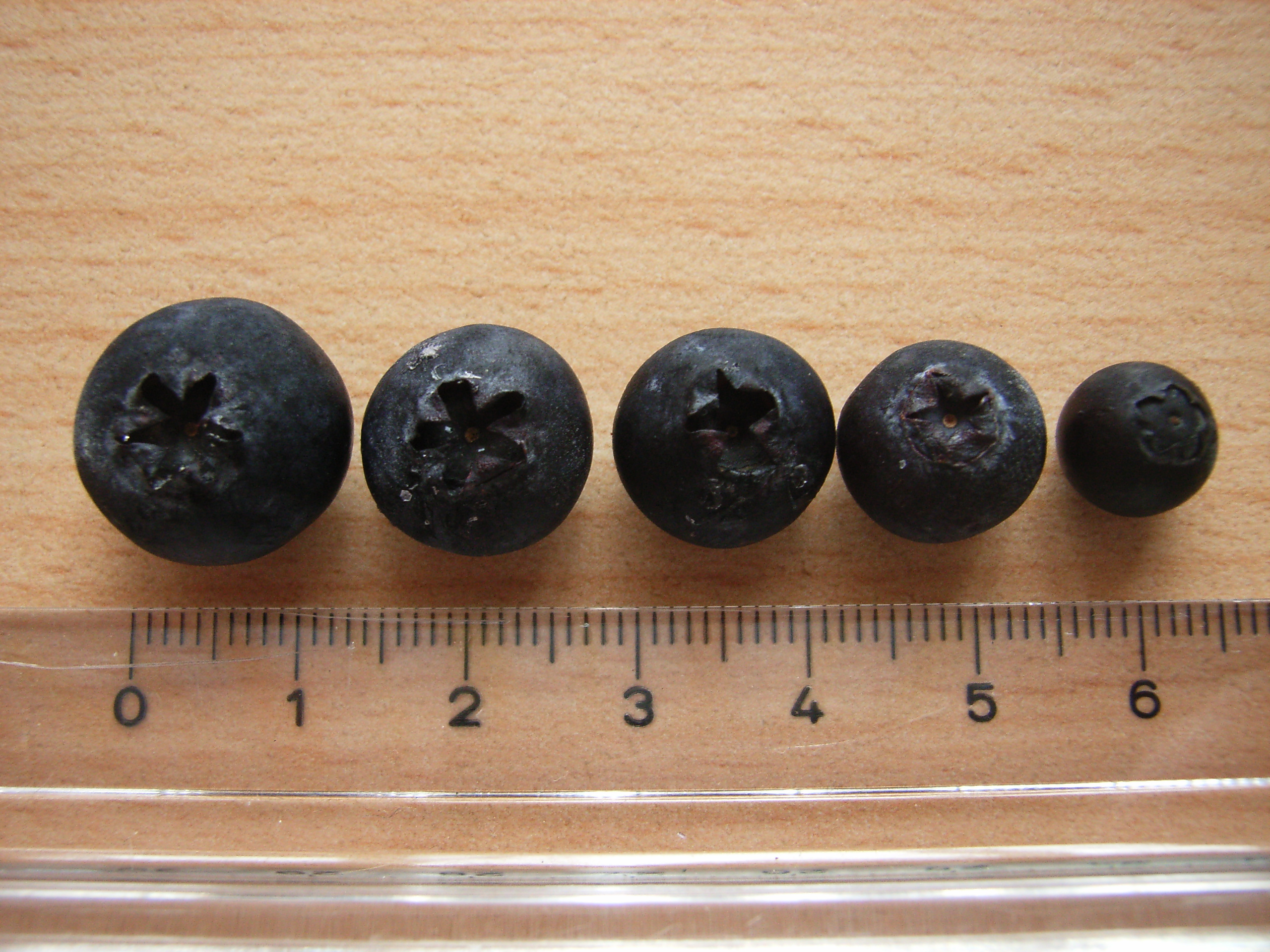 Vaccinium cf. corymbosum, fruits